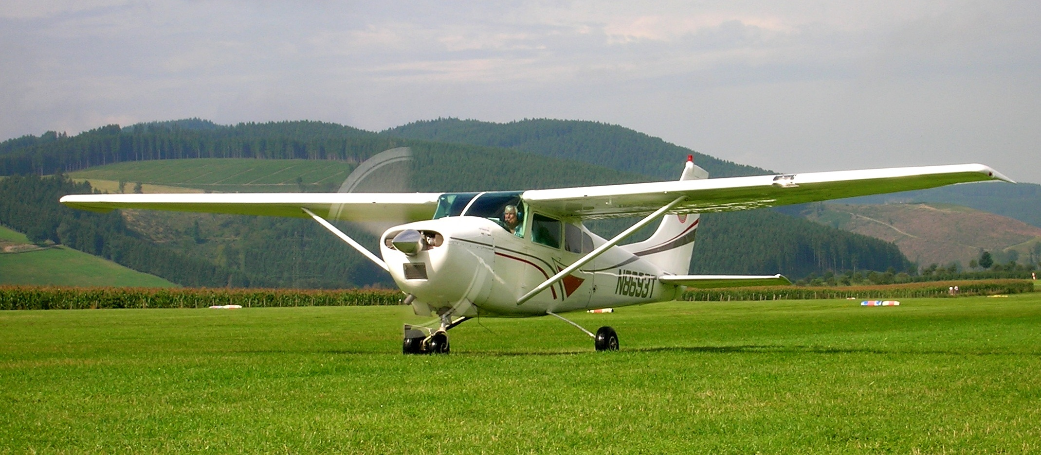 Cessna 182 C used by the skydivers of FSC Sauerland since 2010. Picture was taken at german airfield Schmallenberg-Rennefeld (EDKR)